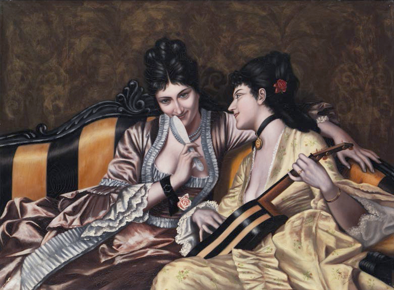 Two ladies on a sofa oil on convas 55 x 77 cm signed b.r.: LFalero / 1887